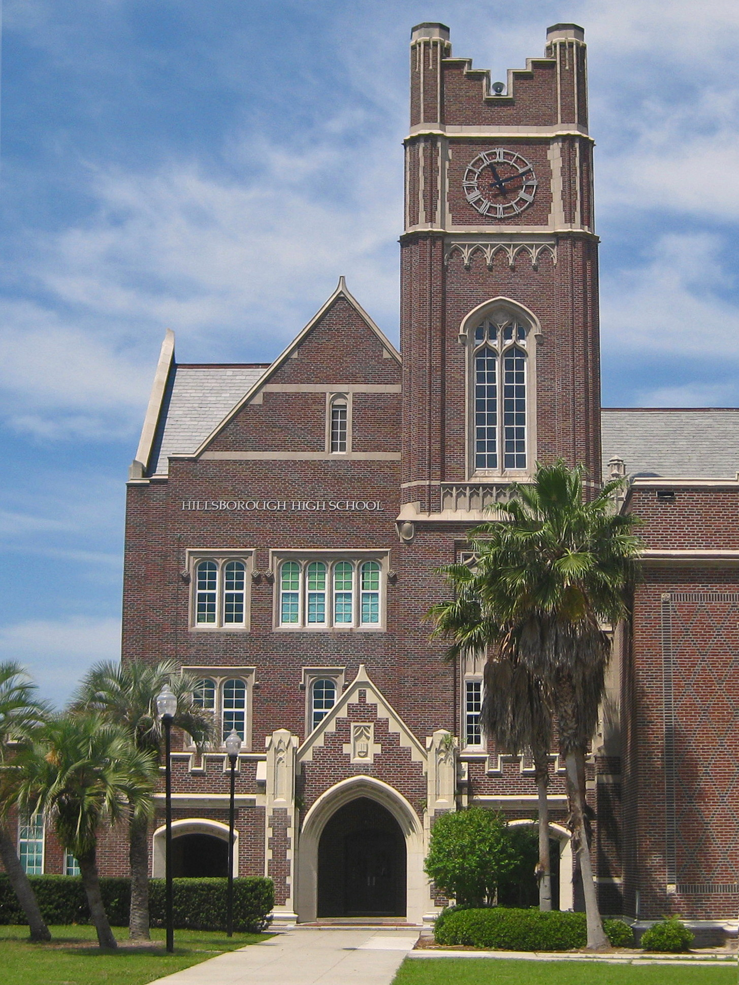 The clock tower and main entrance to Hillsborough High School in Tampa, Florida, USA. Opened in 1928, the original Gothic revival-style building is a contributing structure within the Seminole Heights Residential District, a national and local historic district in Tampa's Old Seminole Heights neighborhood.